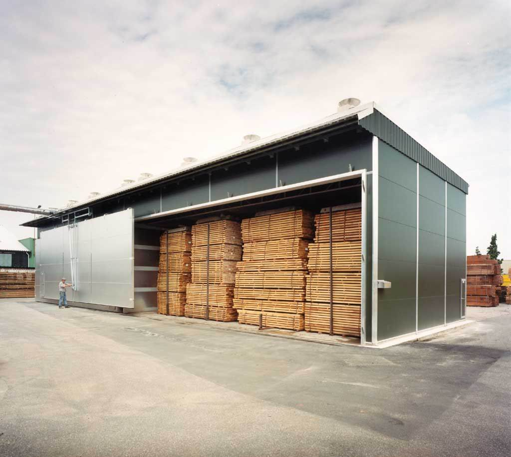 Dry kiln